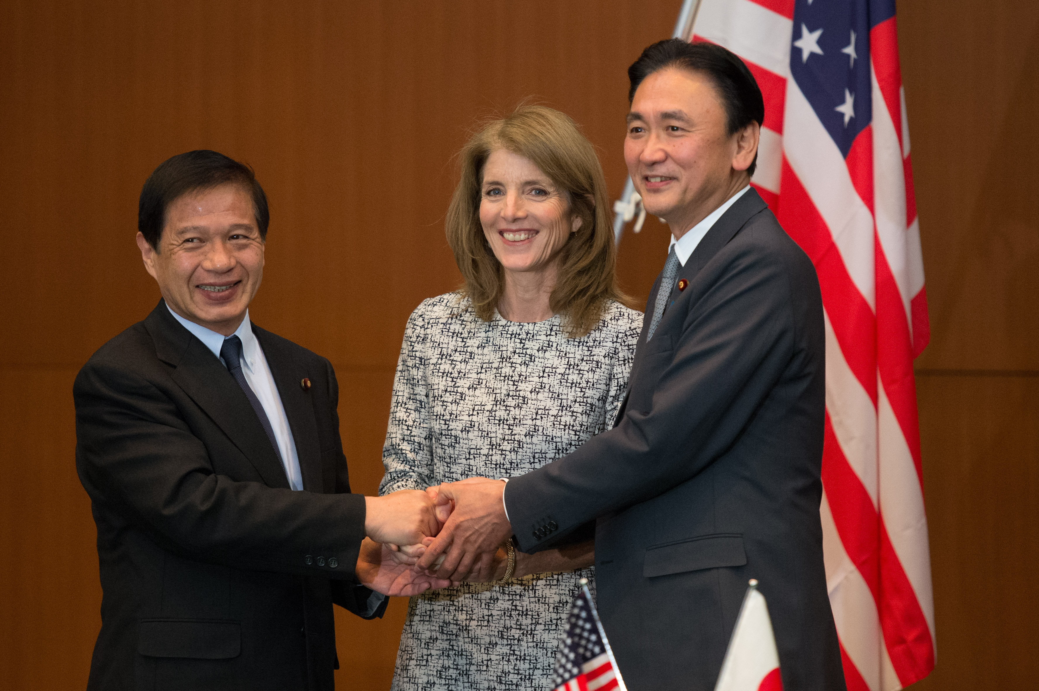 Caroline Kennedy, Ambassador to Japan, shook hands with Norio Mitsuya, Senior Vice-Minister for Foreign Affairs, and Keiji Furuya, Chairman of the National Public Safety Commission, at the Ceremony of the Signing of the Agreement between the Government of Japan and the Government of the United States of America on Enhancing Cooperation in Preventing and Combating Serious Crime in Tōkyō Metropolis on February 7, 2014.